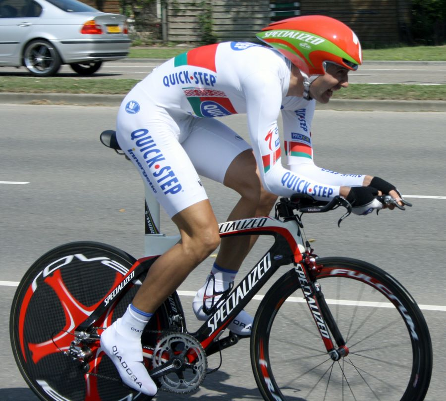 Branislau Samoilau at the 2009 Eneco Tour prologue